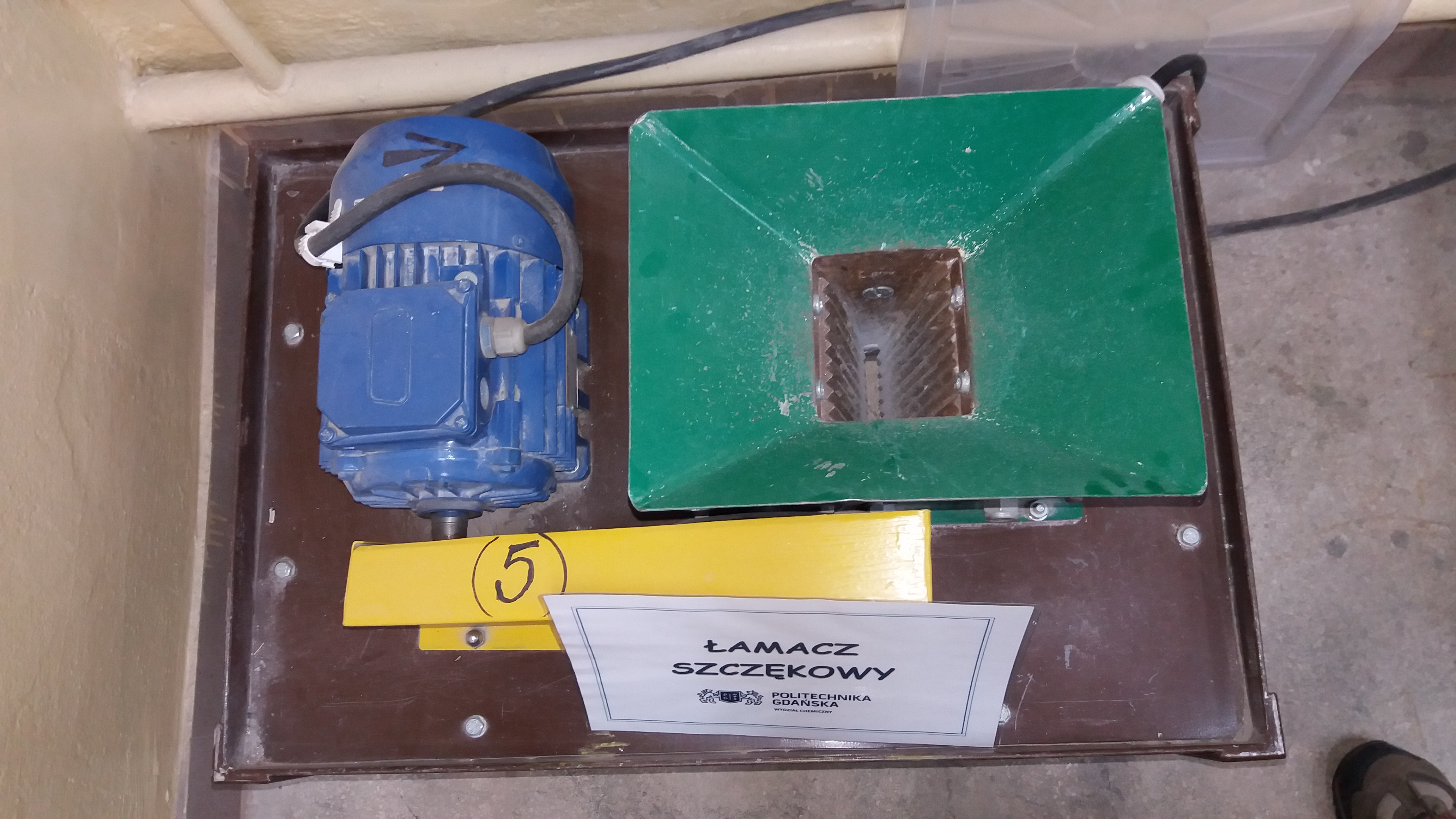 Dodge type jaw crusher. Property of Faculty of Chemistry, Gdańsk University of Technology.